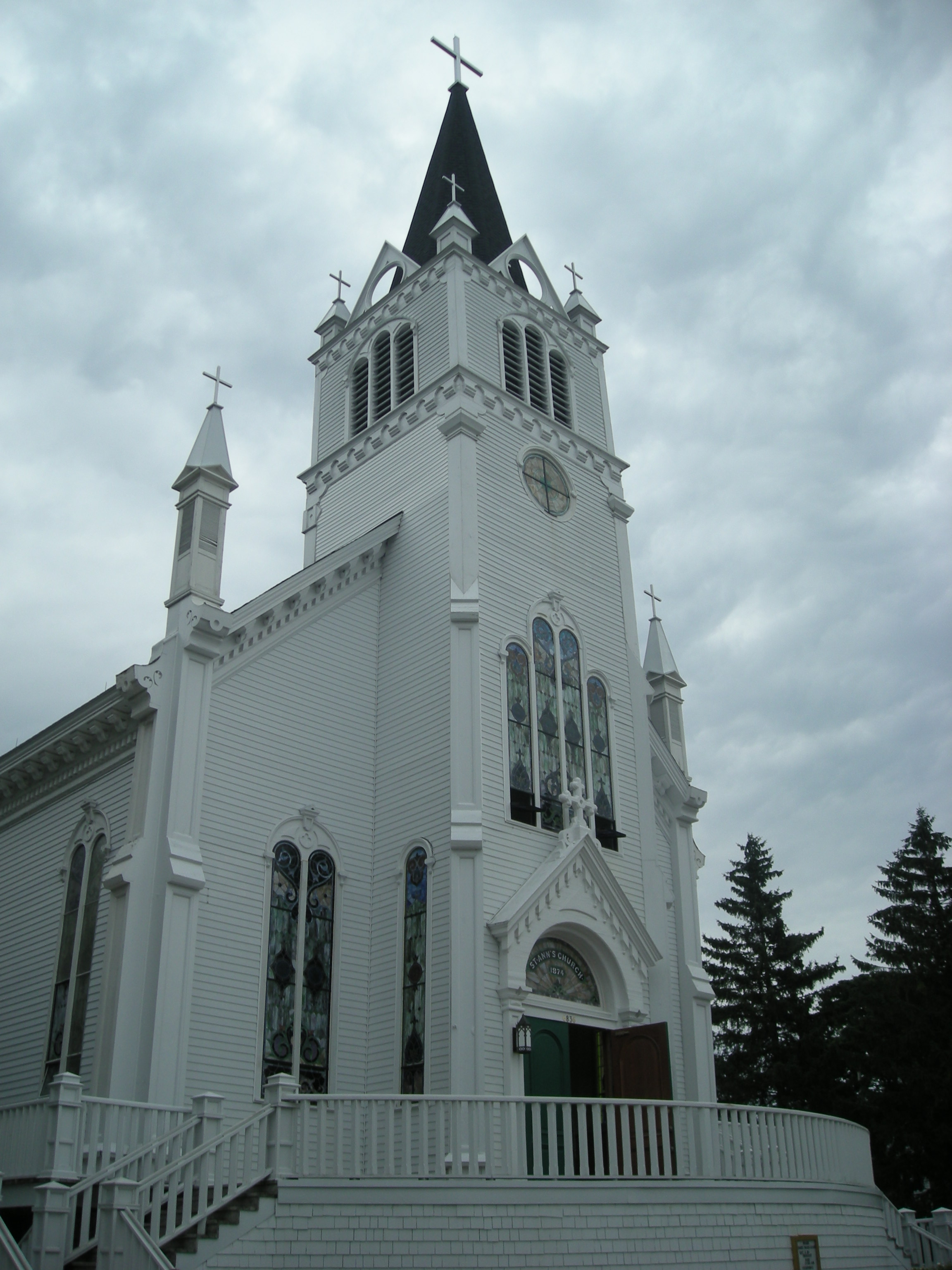 Sainte Anne Church on Mackinac Island, Michigan (United States).